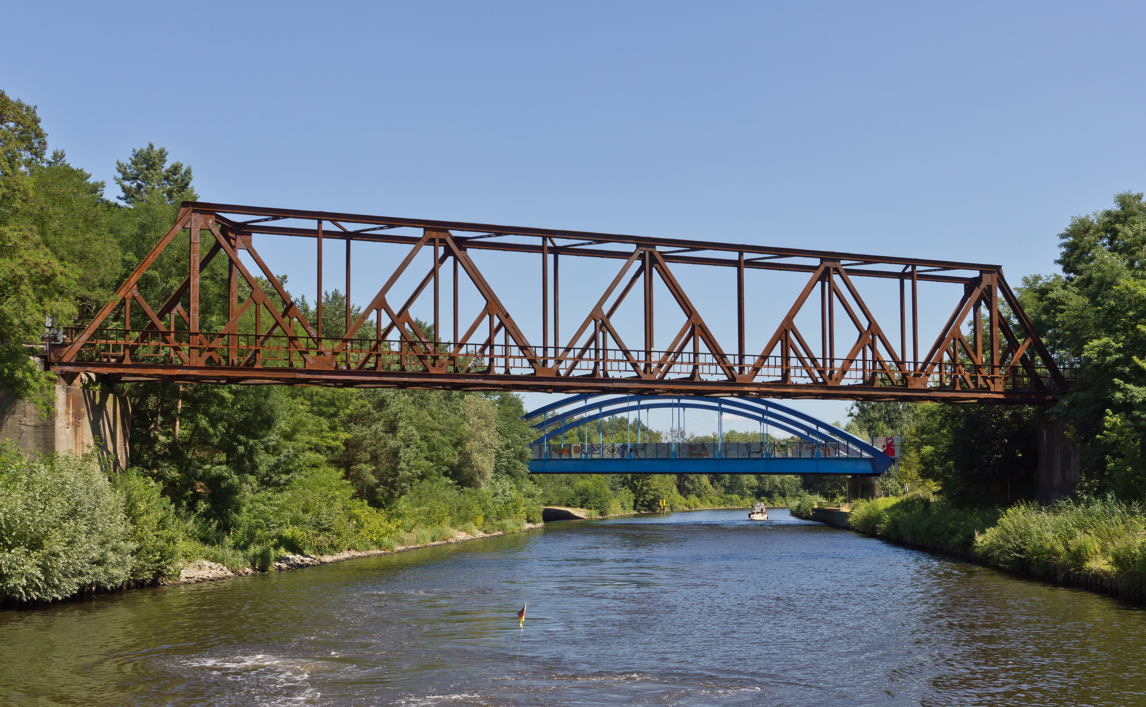 Abandoned railway bridge across Teltow Canal near Stahnsdorf, Brandenburg, Germany